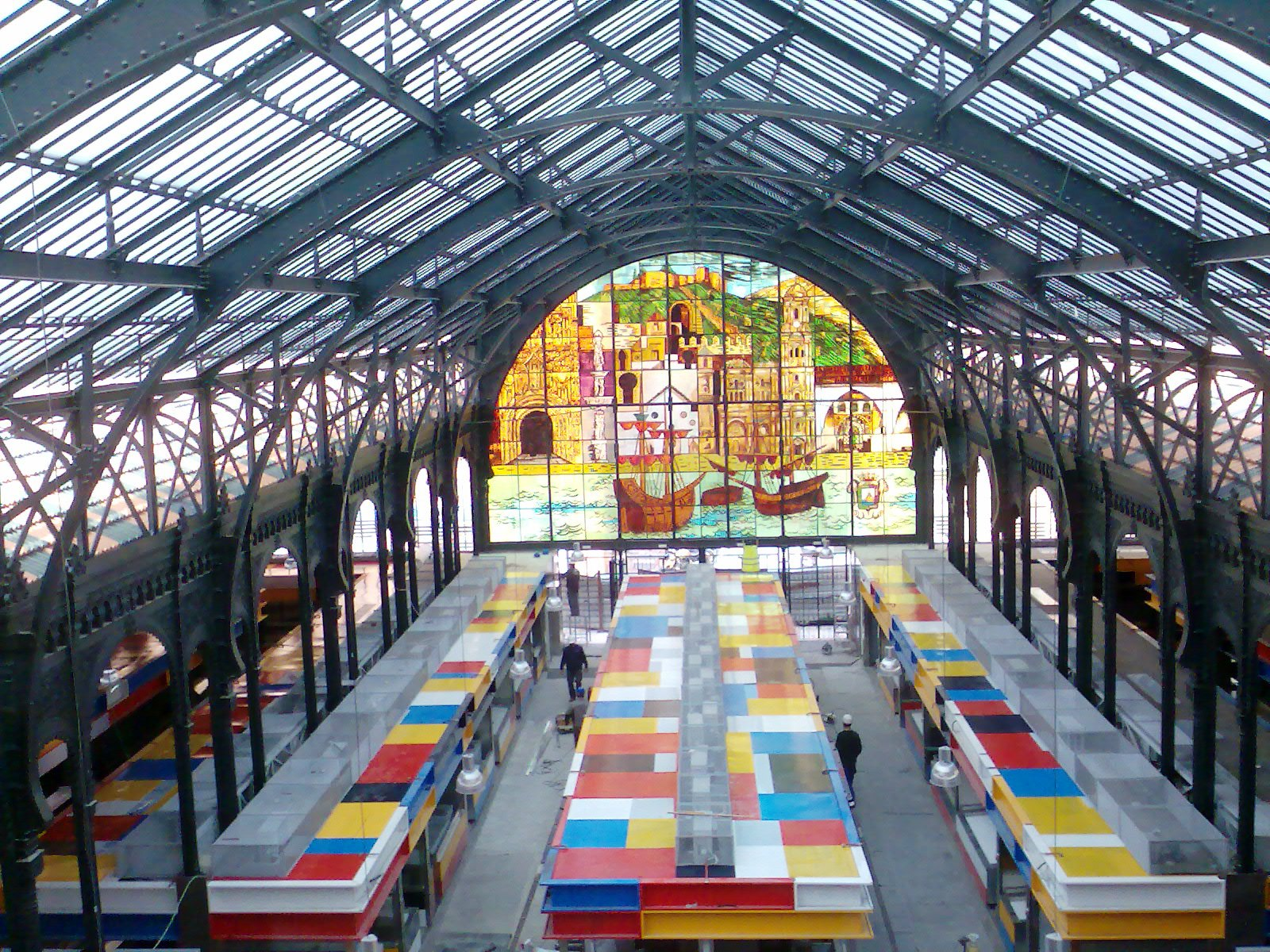 Atarazanas Market, Málaga